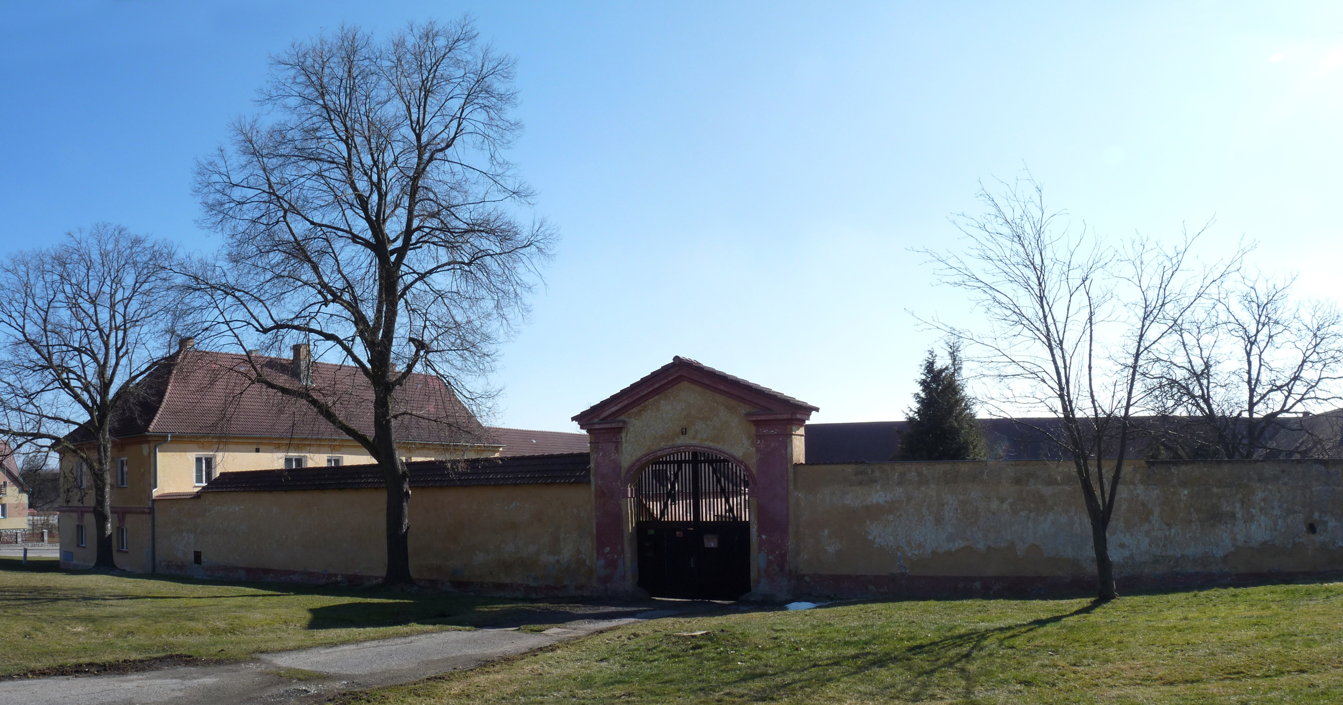 Former Schwarzenberg farmstead, house No 1 in the municipality of Olešník, České Budějovice District, Czech Republic.